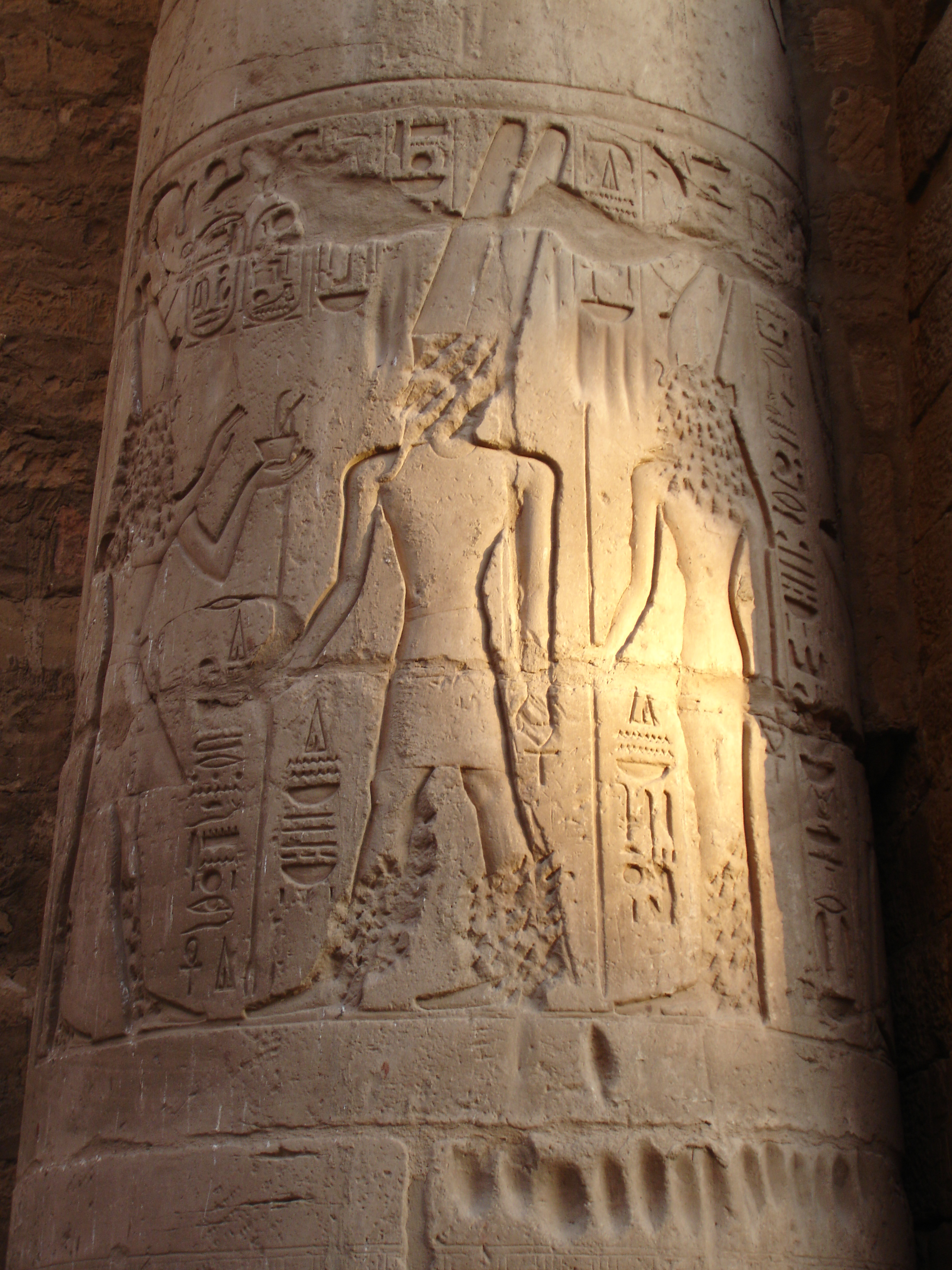 Hieroglyphics at an ancient temple in Luxor Egypt